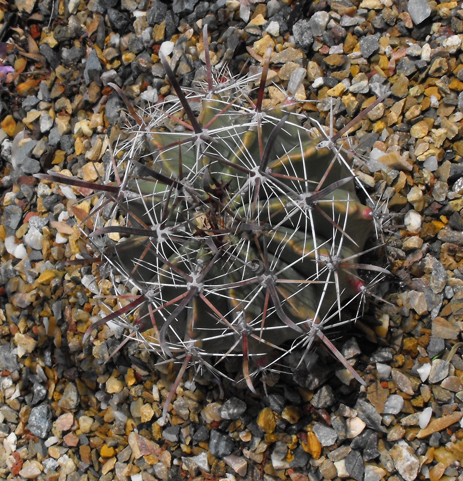 Ferocactus townsendianus at UC Berkeley Botanical Garden, California, USA. Identified by sign.